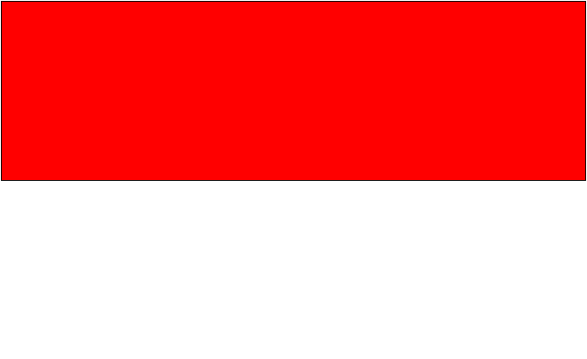 Flag of Aalen